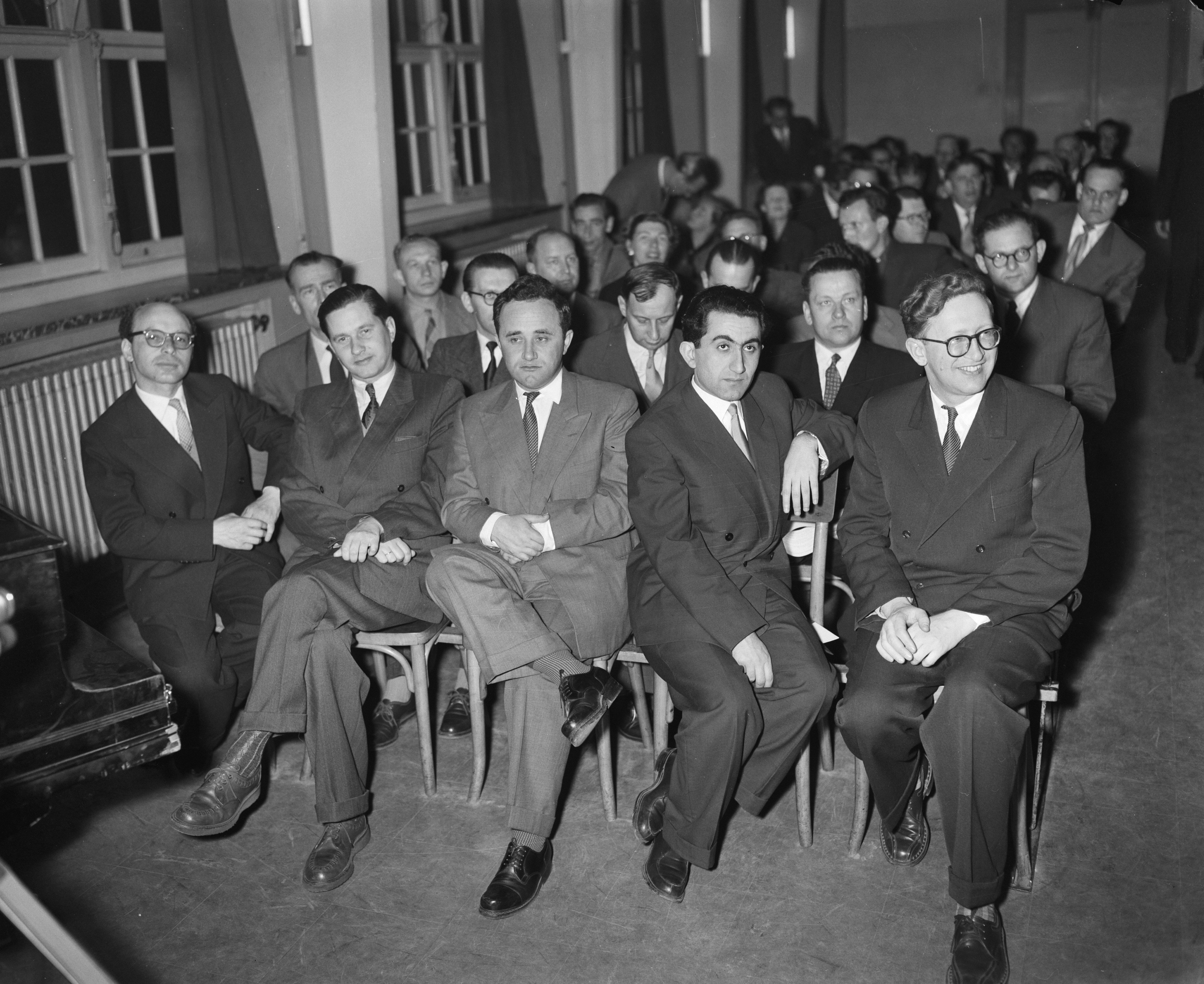 First row, left to right: David Bronstein, Paul Keres, Efim Geller, Tigran Petrosian, Vassily Smyslov